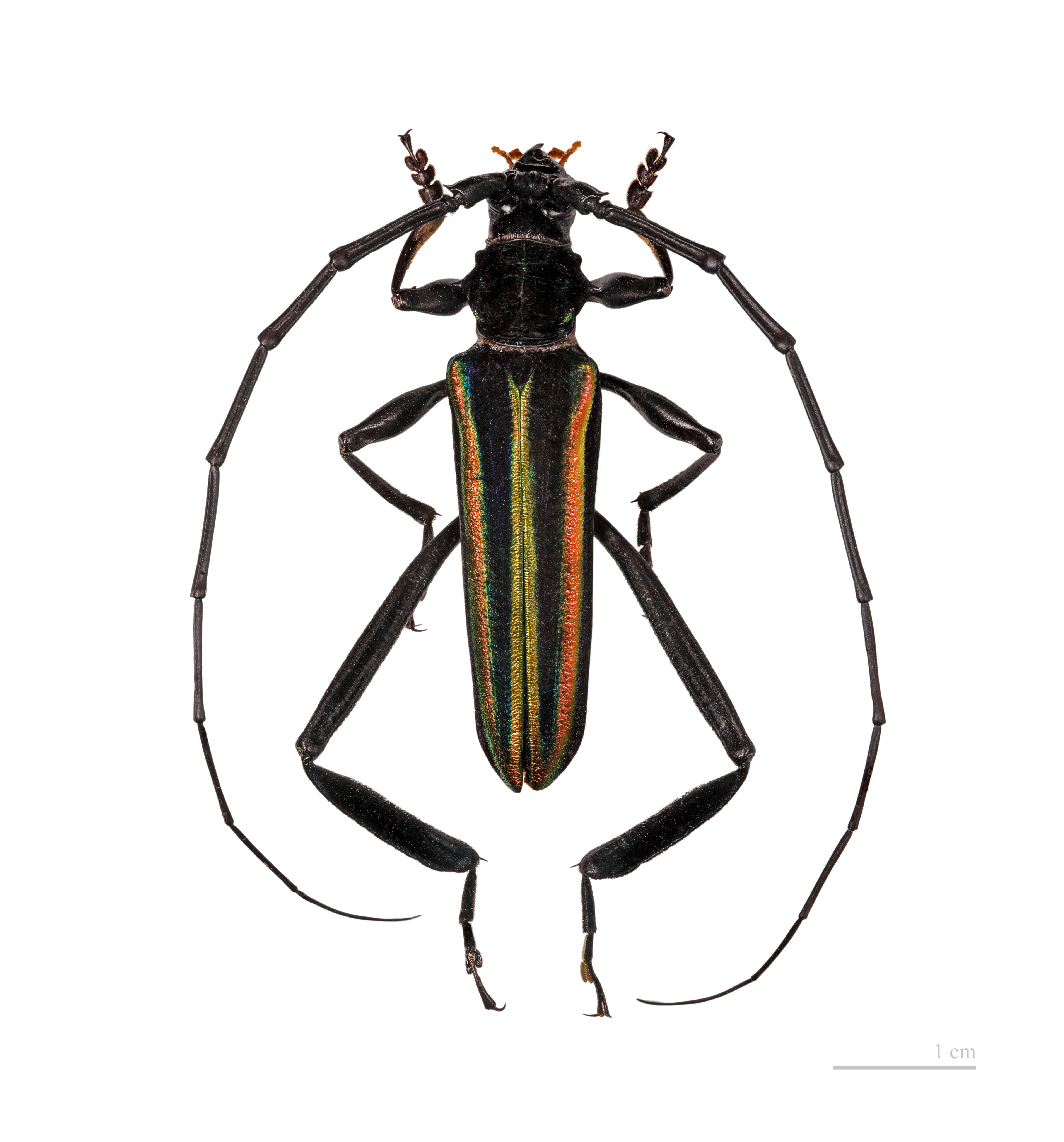 ♂ - Dorsal side Locality : Kaw road, Carbet of National Forests Office, French Guiana.